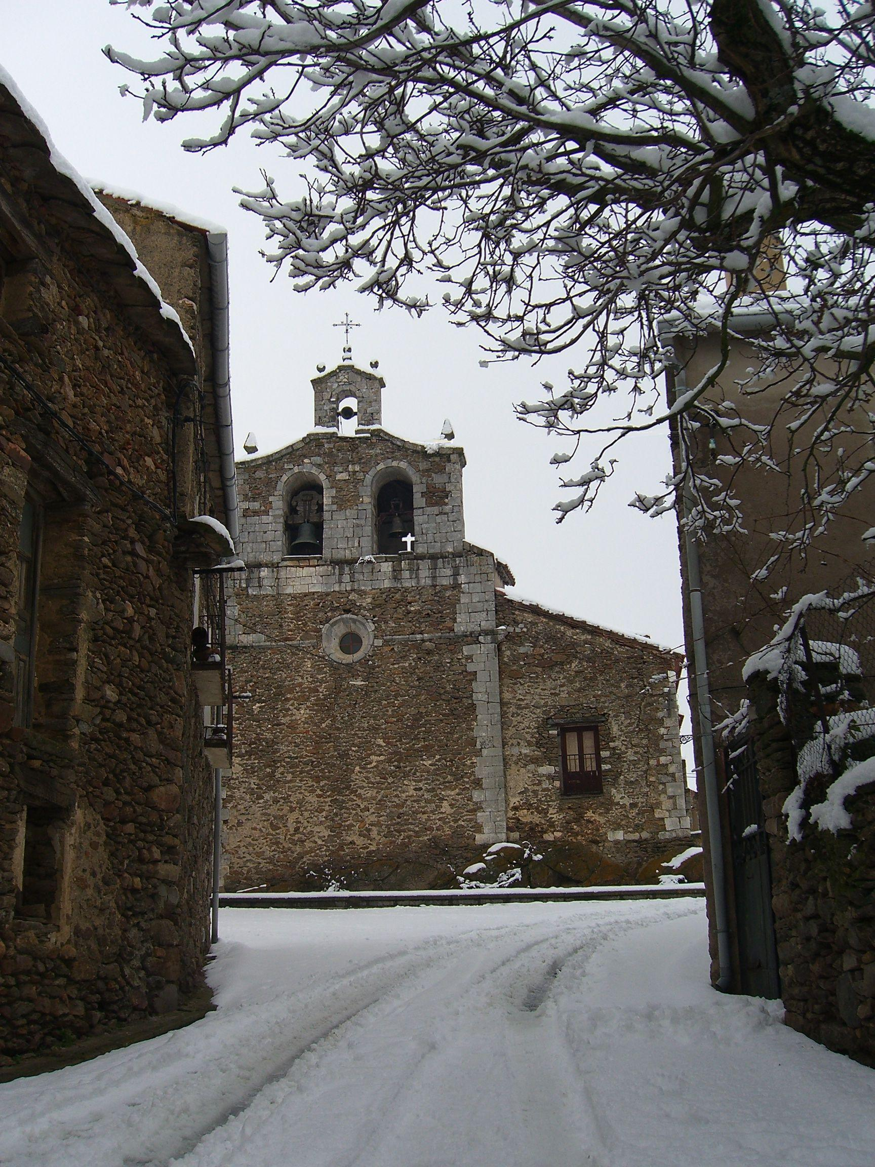 Church of Bustares